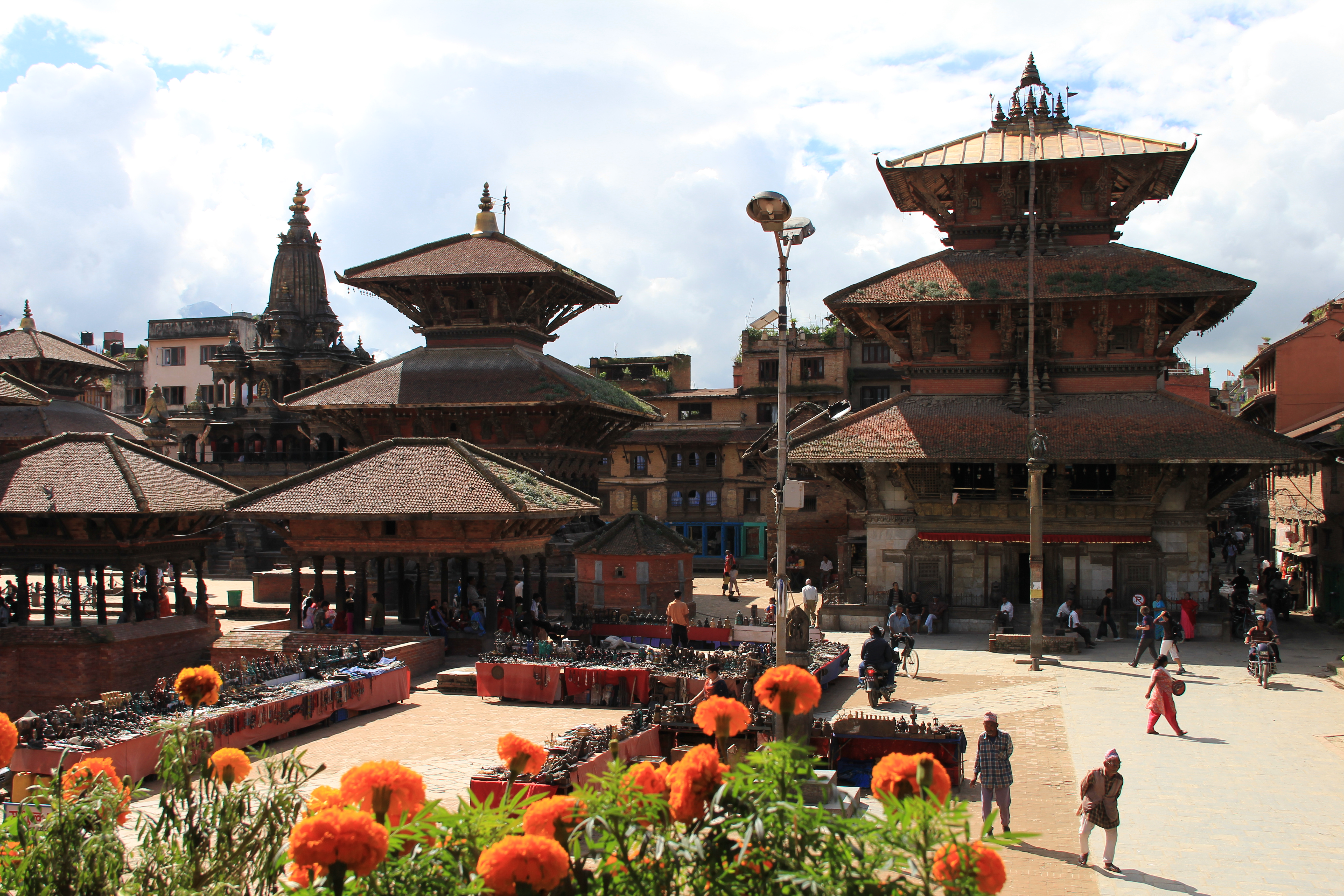 Krishna Mandir (left), Vishwonath Temple (center), Bhimsen Temple (right) at Patan Durbar Square in September of 2010.